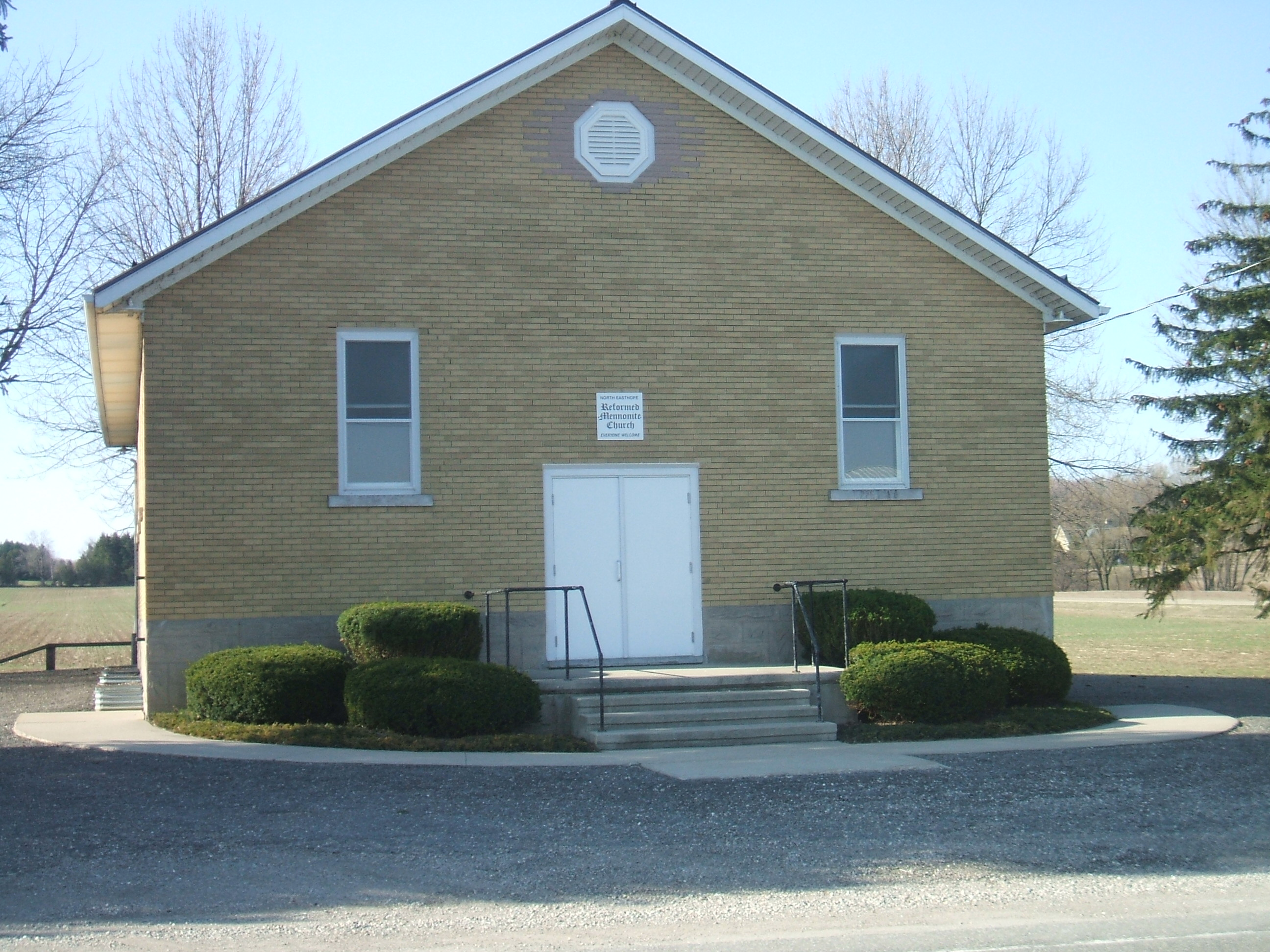 North Easthope Mennonite Church localed on Perth County Rd. 44 west of Ratzburg, Ontario, Canada